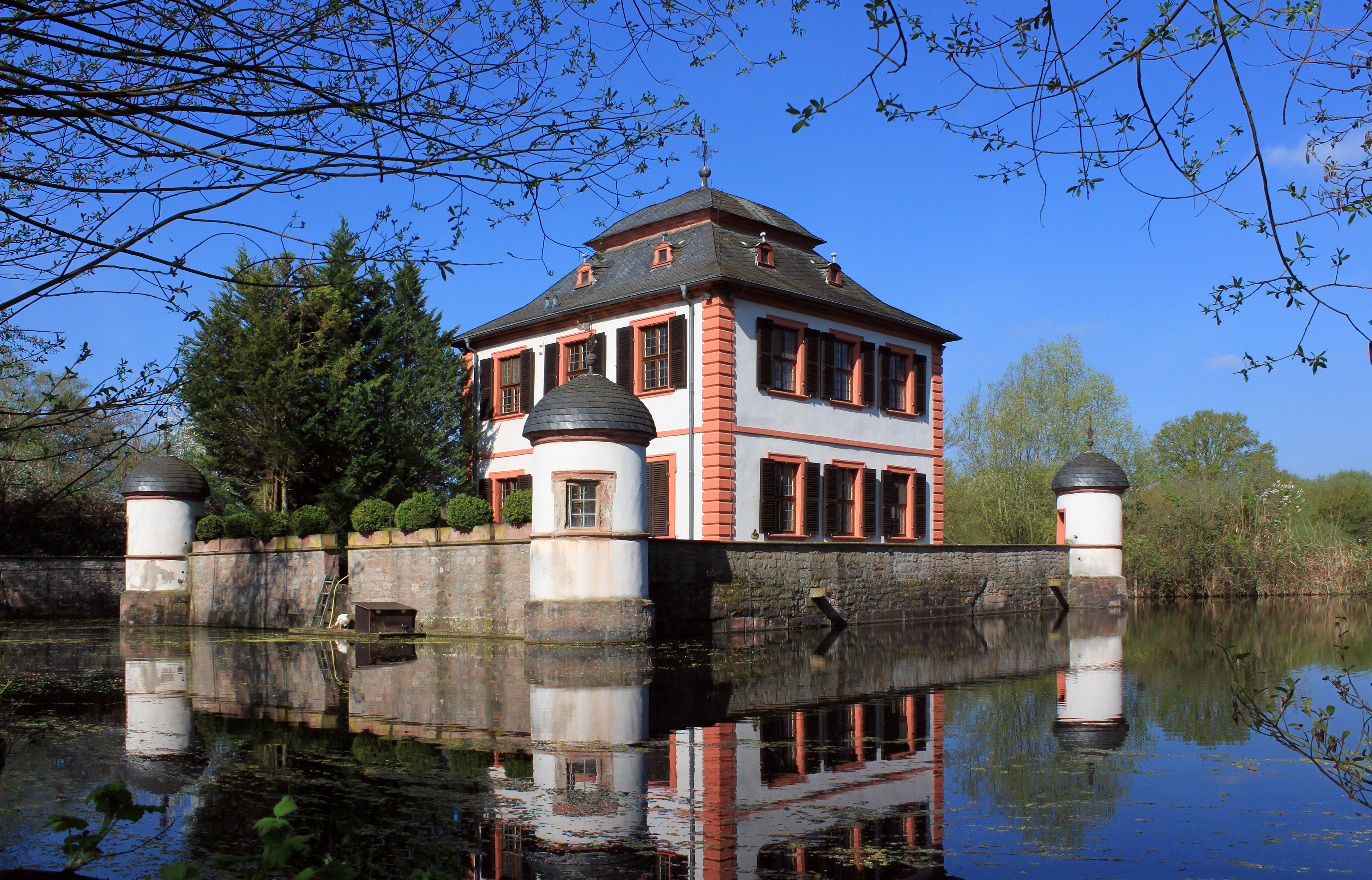 A castle built in water from Seligenstadt (Germany)